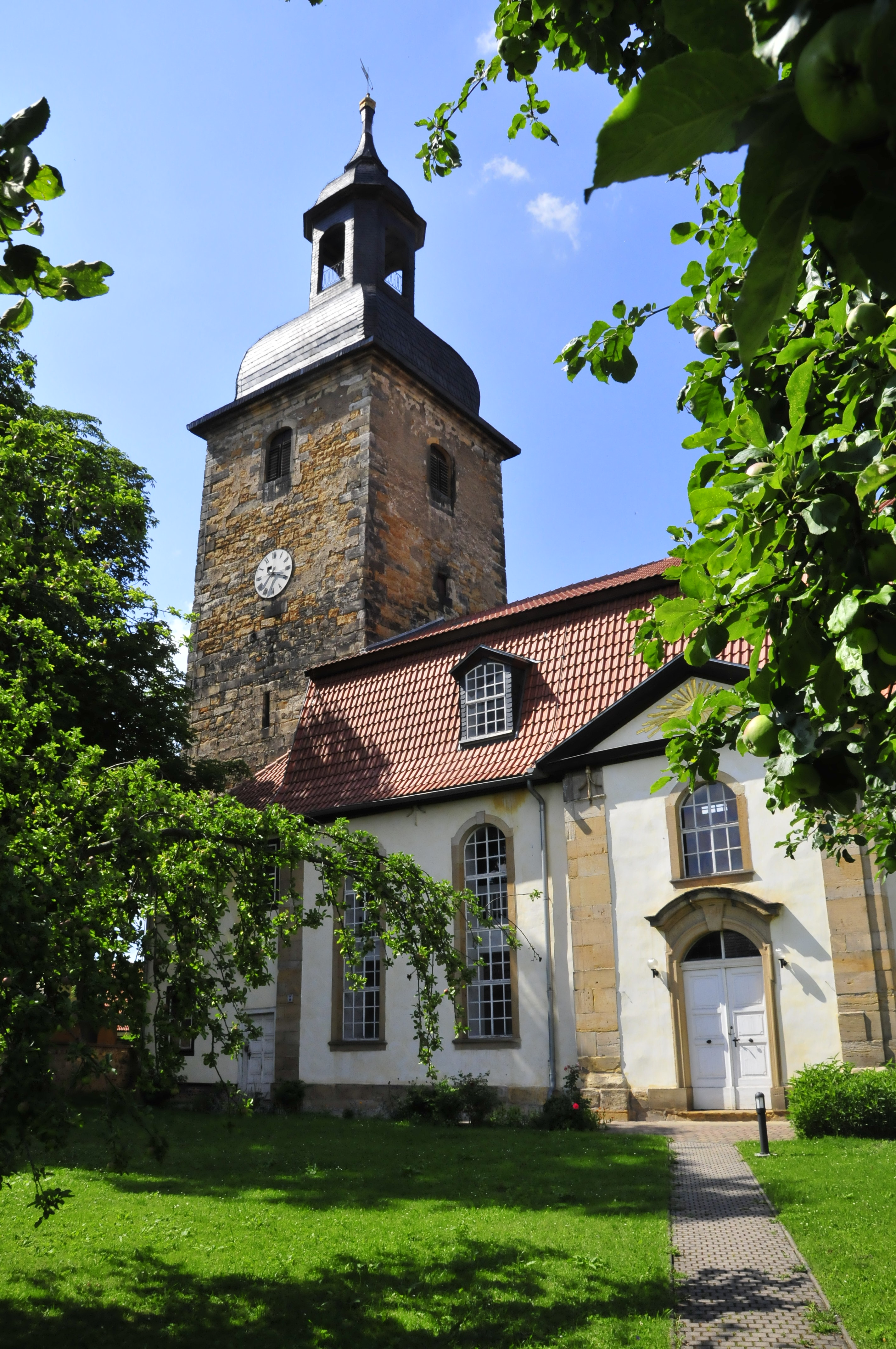 Friemar, church